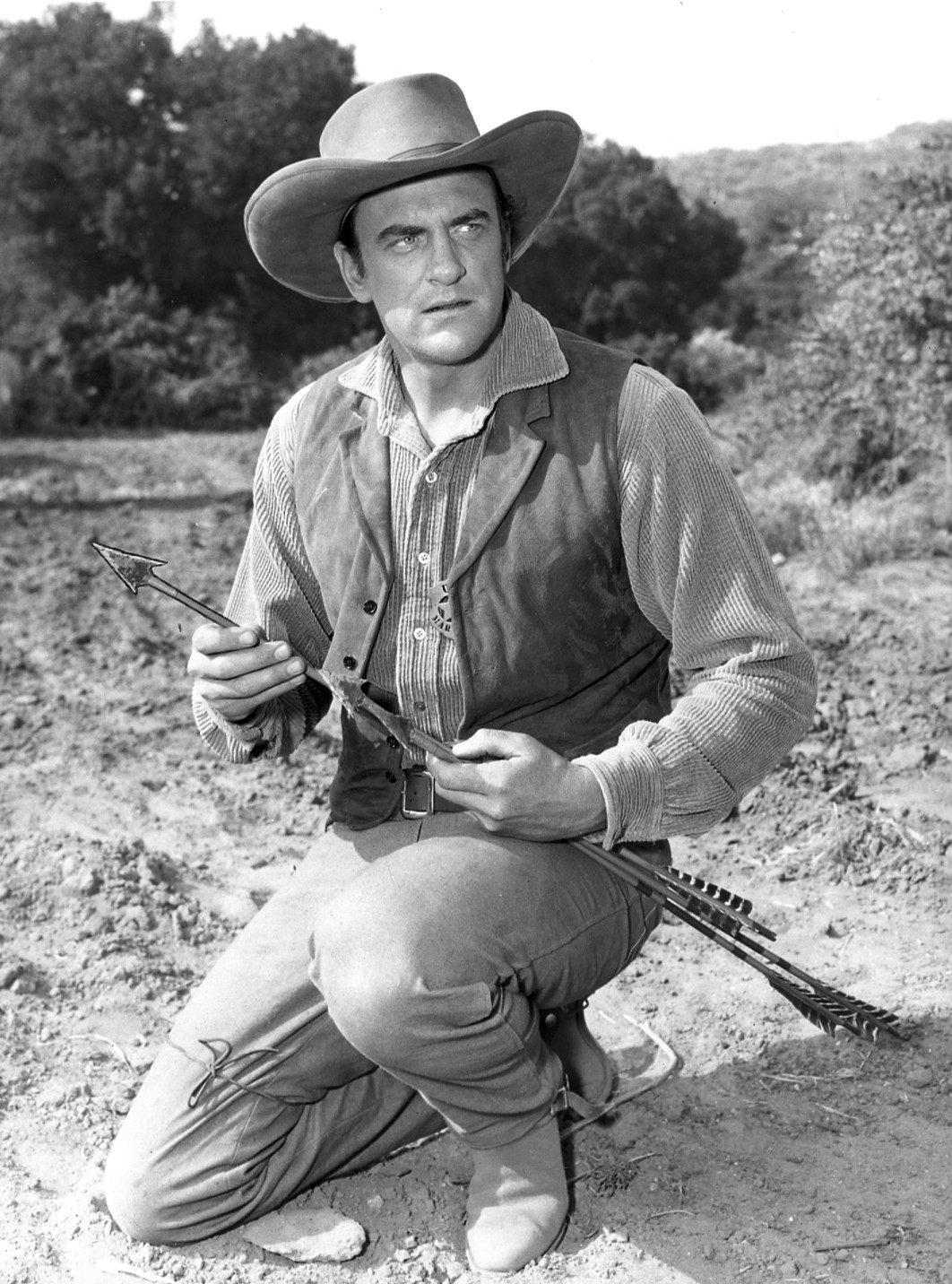 Photo of James Arness as Matt Dillon from Gunsmoke.